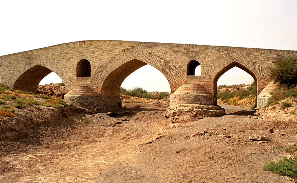 A safavid bridge outside Qazvin, Iran.